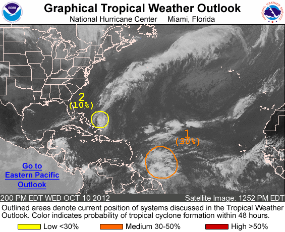 Satellite Image from the Caribbean Sea and Atlantic Ocean